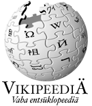 Logo of the Võro Wikipedia